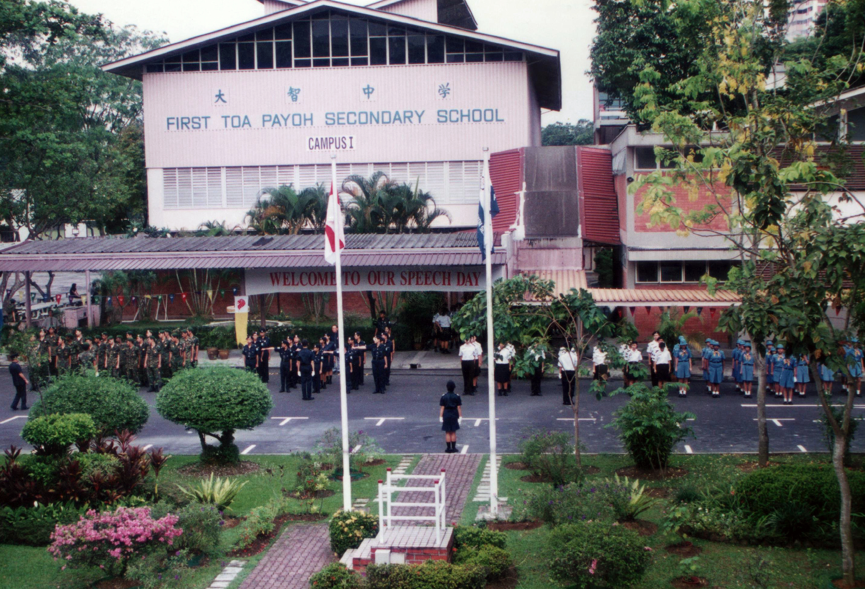 Toa Payoh Lorong 1 Campus